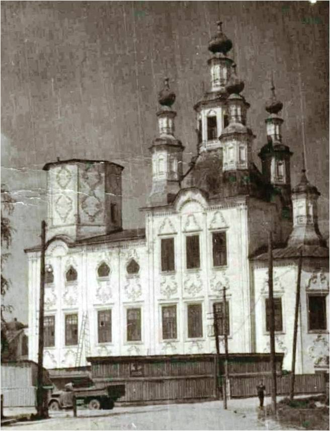 Church of the Entry into Jerusalem. In the 60's it was converted into a distillery.